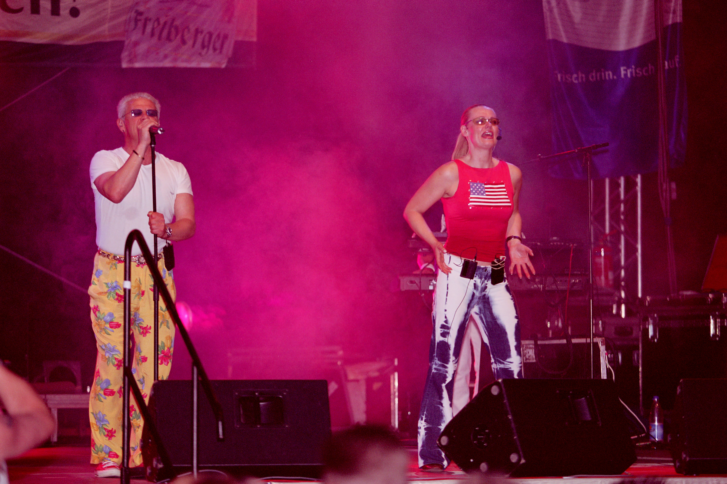 picture taken by me in 2002 shows the german "Saragossa Band" in concert